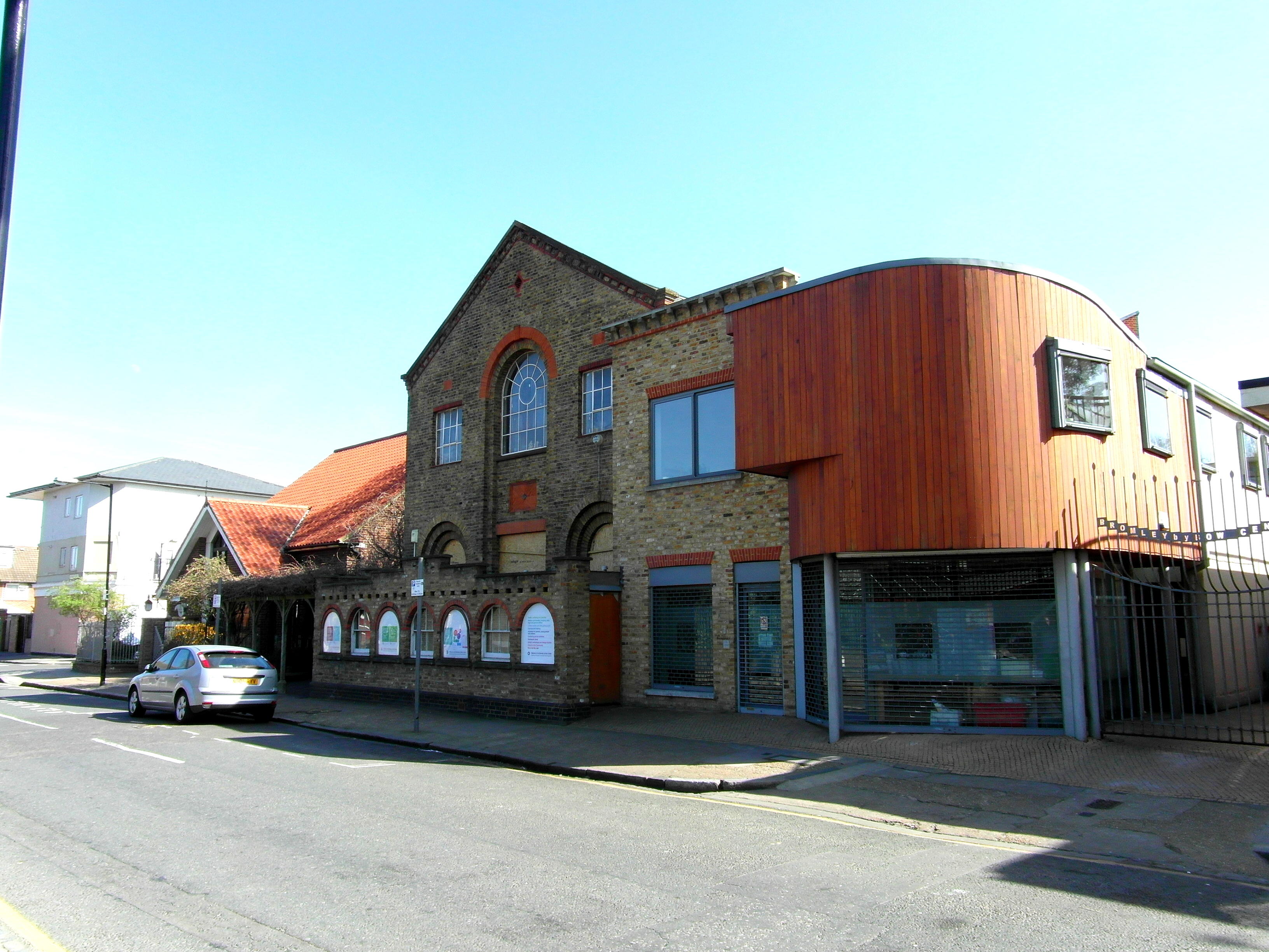 St Leonards Road, Bromley-by-Bow. Community centre developed around a former congregational church damaged in the war and restored in 1958. The timber-clad cafe, designed by Wyatt MacClaren, was added in 2002.